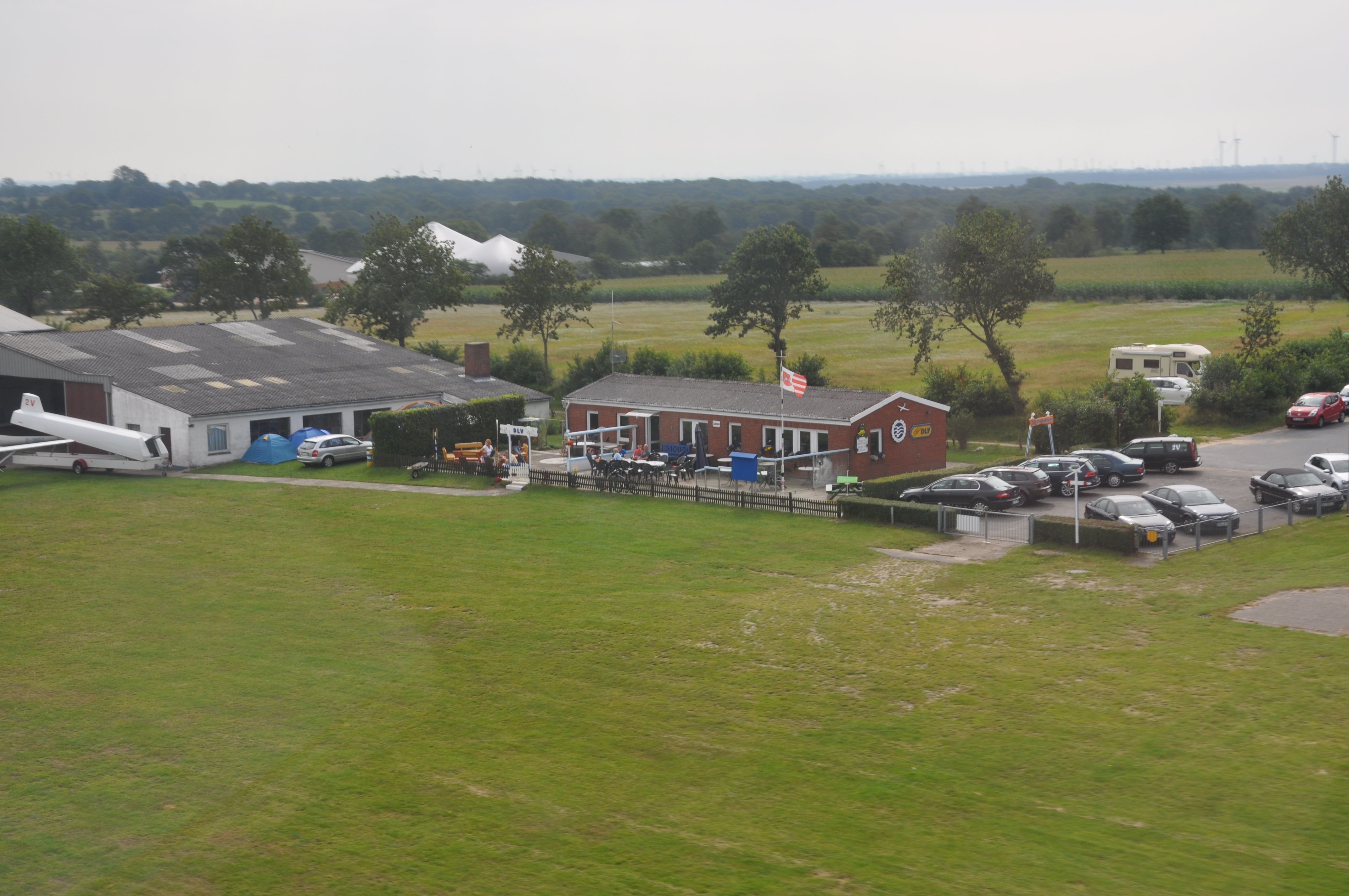 Sankt Michaelisdonn airport: “Clubheim” (home of the Dithmarscher Luftsportverein), part of the apron, parking lot